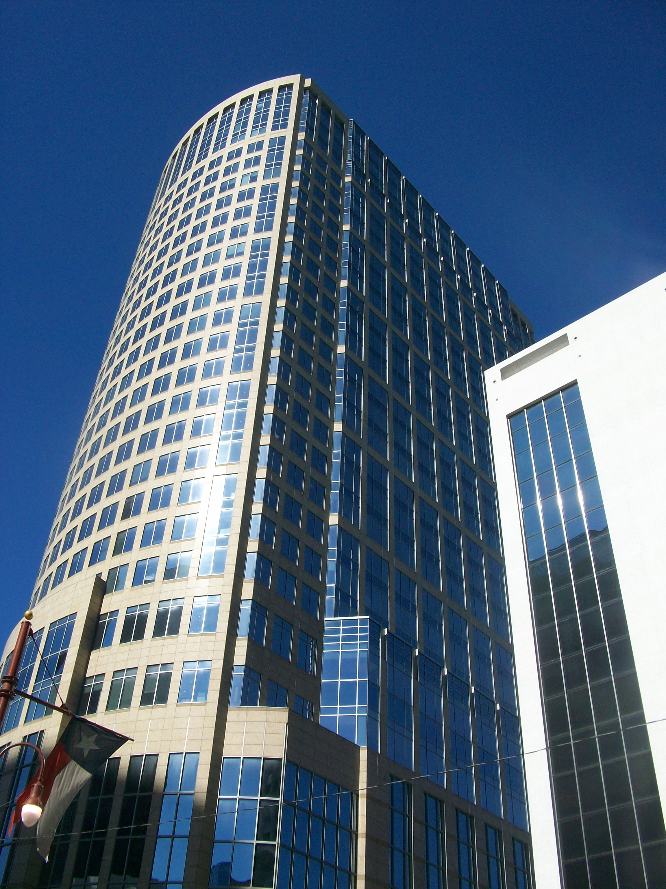 Calpine building, looking up